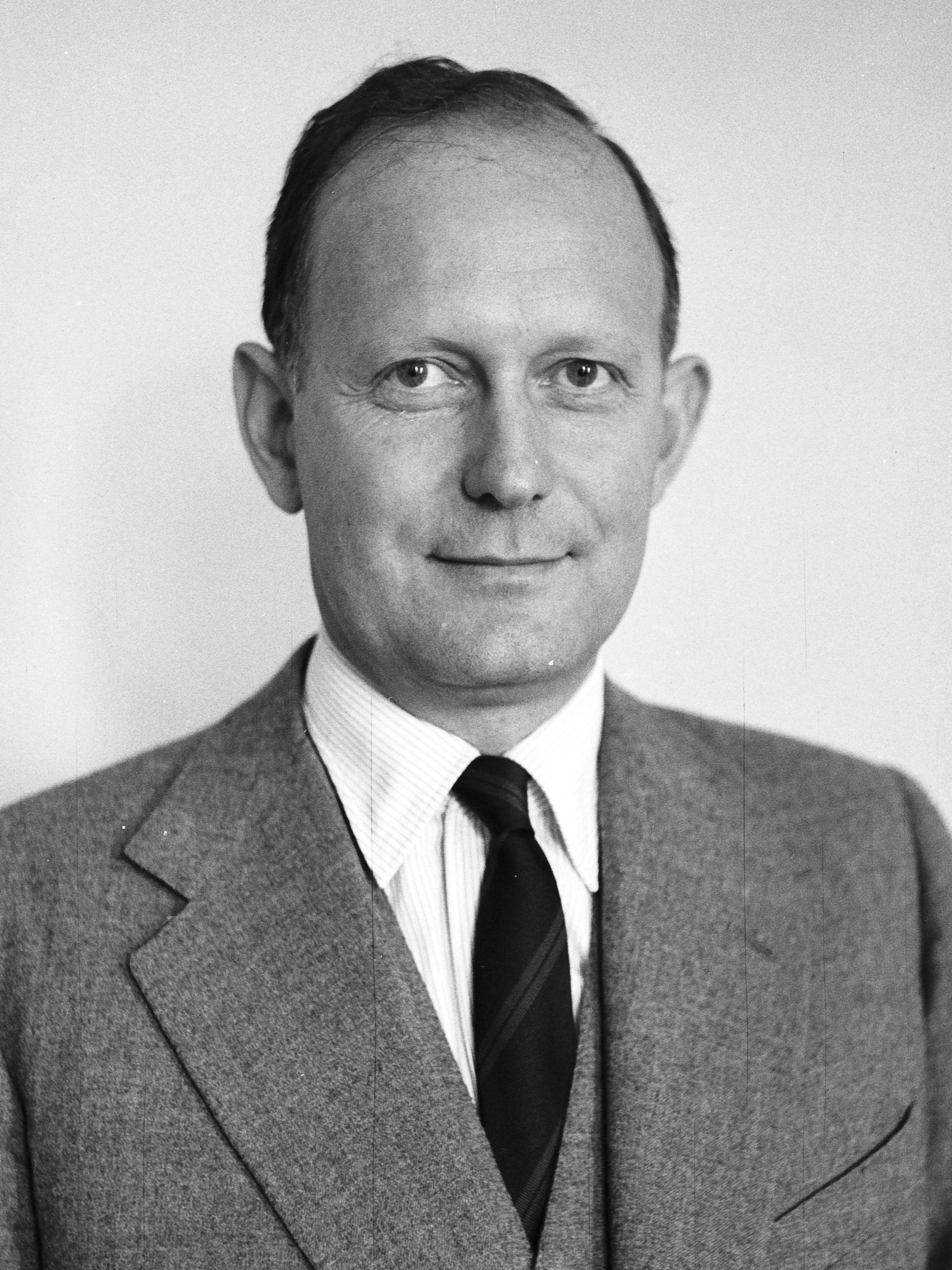 C. Douglas Dillon, U.S. Secretary of the Treasury. This picture was taken in 1955 in Dillon's capacity of Ambassador to France. The caption information for this image can be seen here, provided by Still Picture Reference Team at the National Archives and Records Administration. The identifier for this image is PAR 7117.